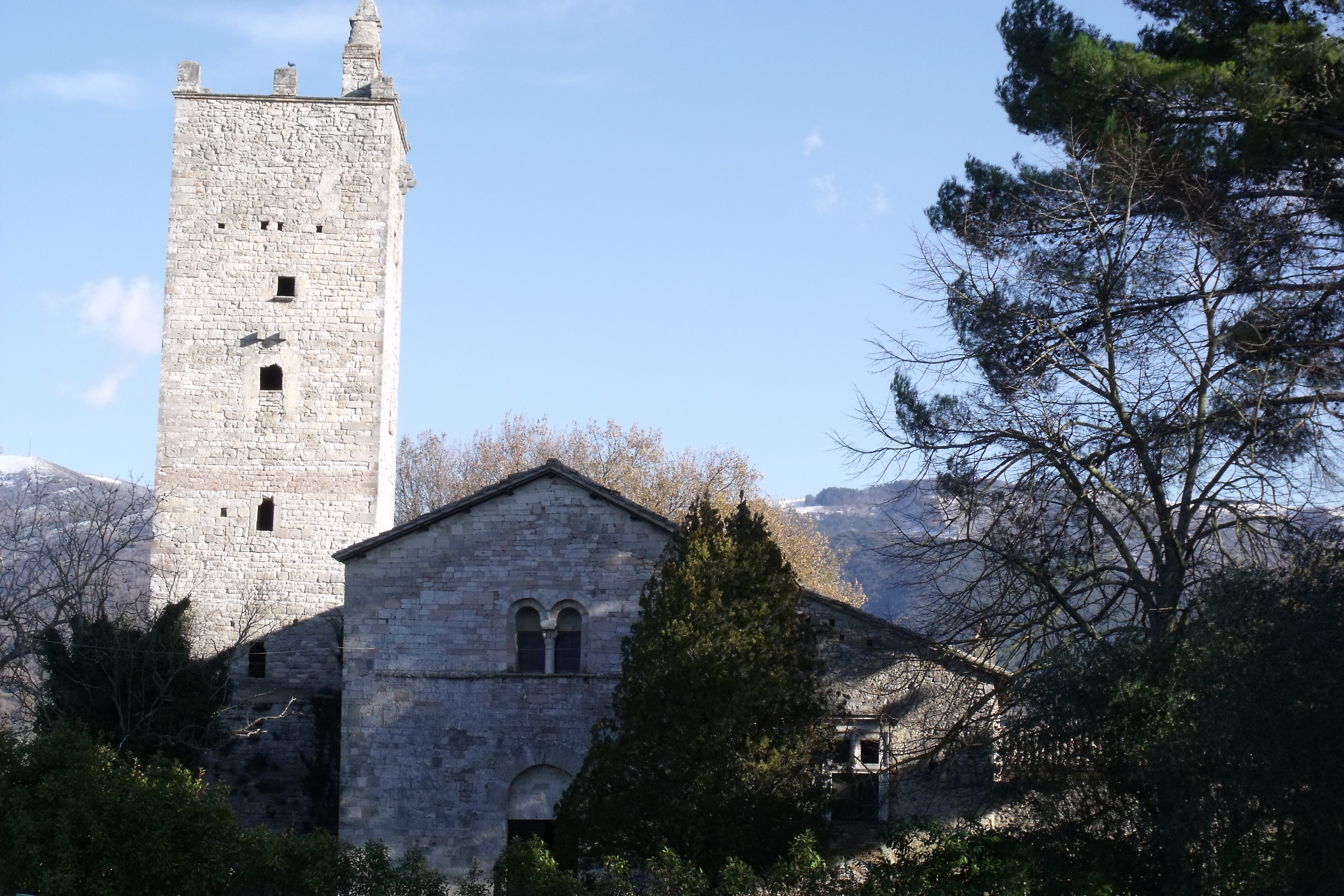 Abbazia dei Santi Fidenzio e Terenzio in Massa Martana, Province of Perugia, Umbria, Italy